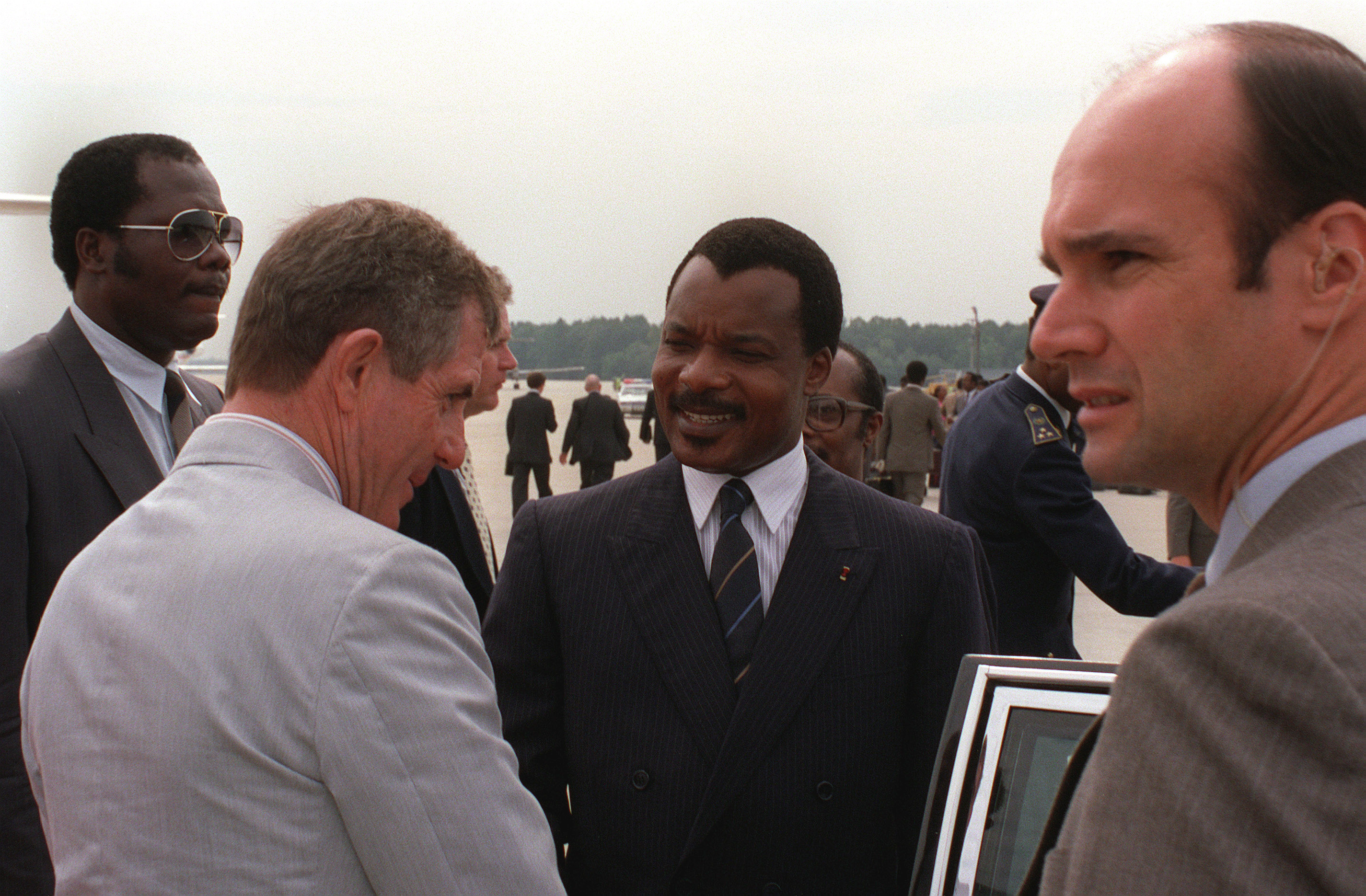 The president of the Peoples Republic of the Congo, Colonel Denis Sassou-Nguesso, greets U.S. government officials at Andrews Air Force Base before departing the base in a limousine.